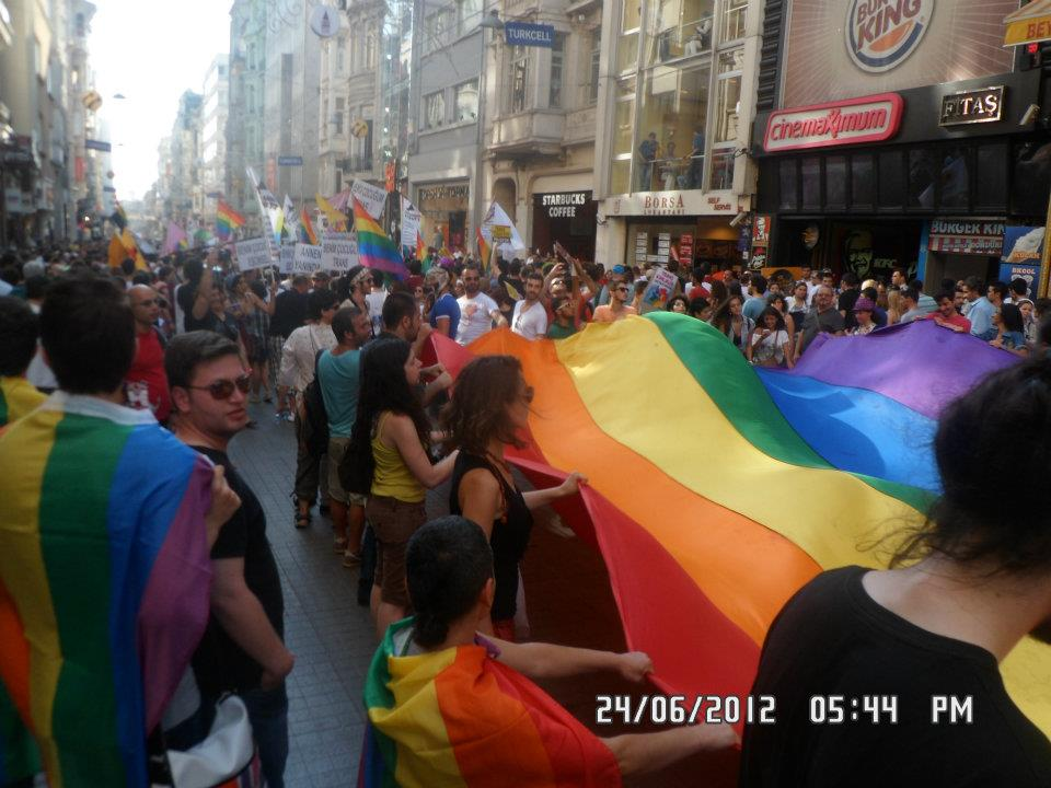 2012 Gay Pride Parade, Istanbul.